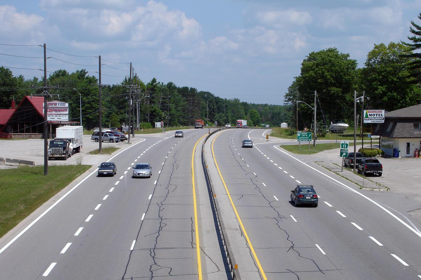 King's Highway 11, looking north from overpass toward South Sparrow Lake Road/Goldstein Road right-in/right-out exits in Township of Severn, Simcoe County, Ontario, Canada. Image taken by me (Sonysnob). Similar images available here